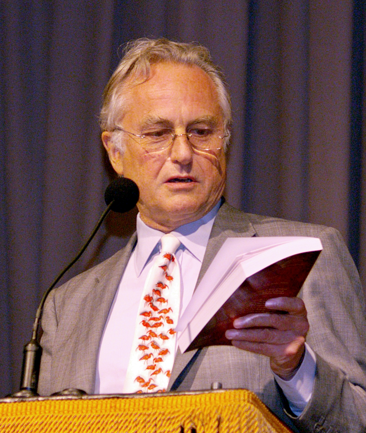 Richard Dawkins at New York City's Cooper Union to discuss his book The Greatest Show on Earth: The Evidence for Evolution, critisizing Ray Comfort's Creationist introduction and censorship of The Origin of the Species 150th Anniversary Edition